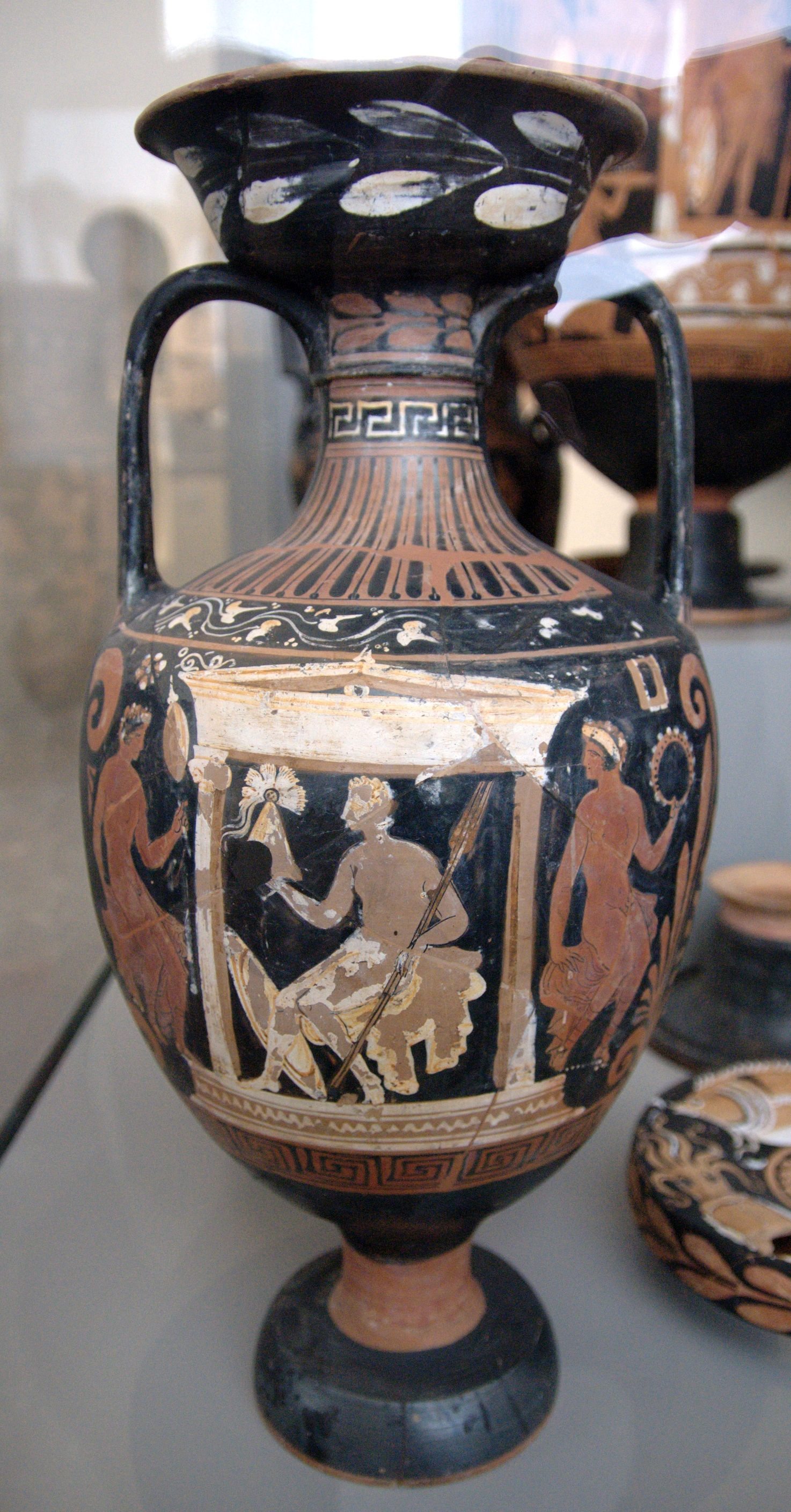 Naiskos. Apulian red-figure amphora, ca. 340 BC.